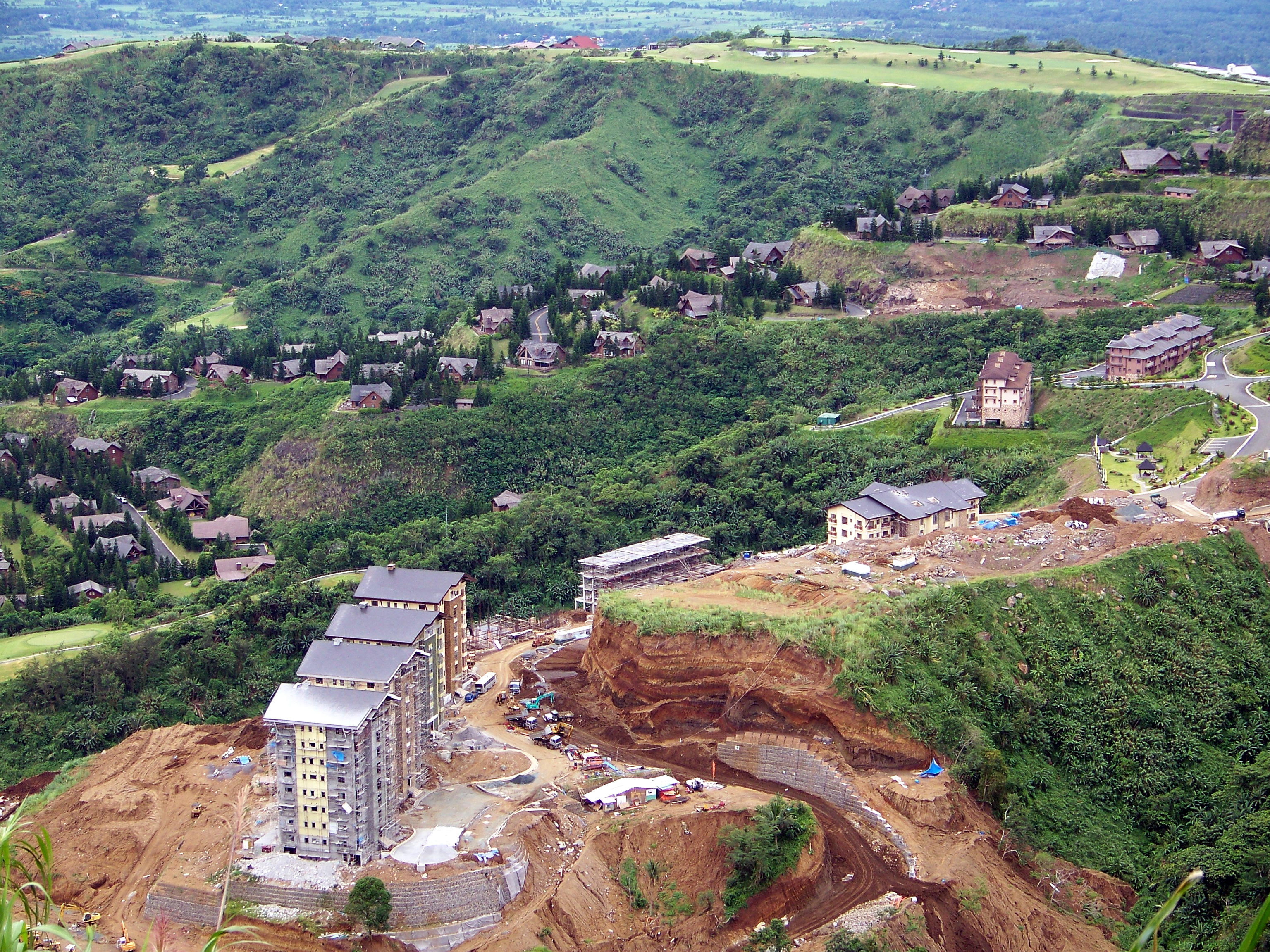 construction of new apartment-type buildings at Tagaytay Highlands, Philippines